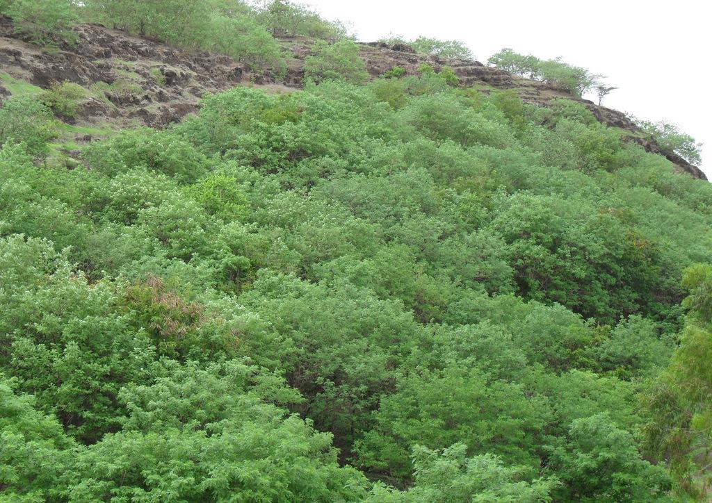 This is the hillock at the back of my building.